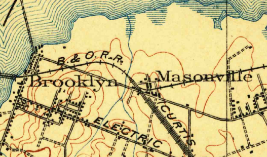 Map detail showing communities on or near the Fairfield Peninsula, from the January, 1907 USGS map centered on Relay, Maryland. Map shows Brooklyn, Masonville, Fairfield, Wagner's Point & South Baltimore (Curtis Bay).